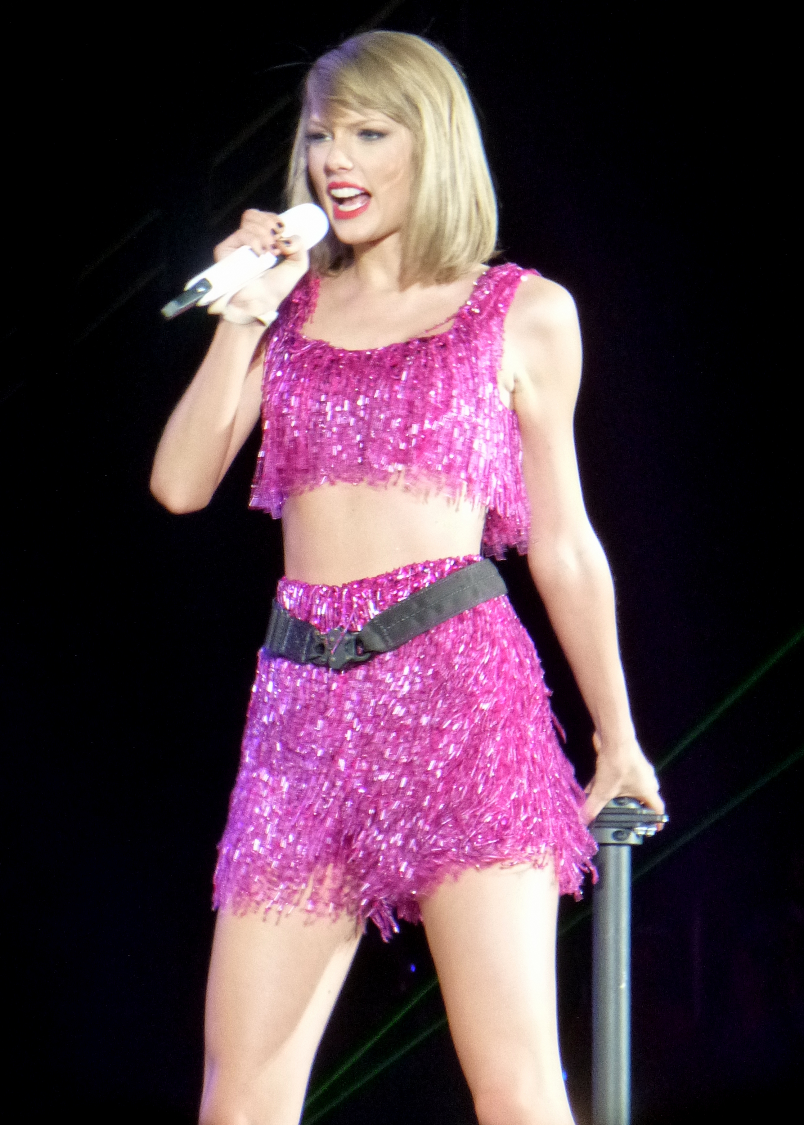 Taylor Swift 1989 Tour at Ford Field in Detroit, 5/30/15